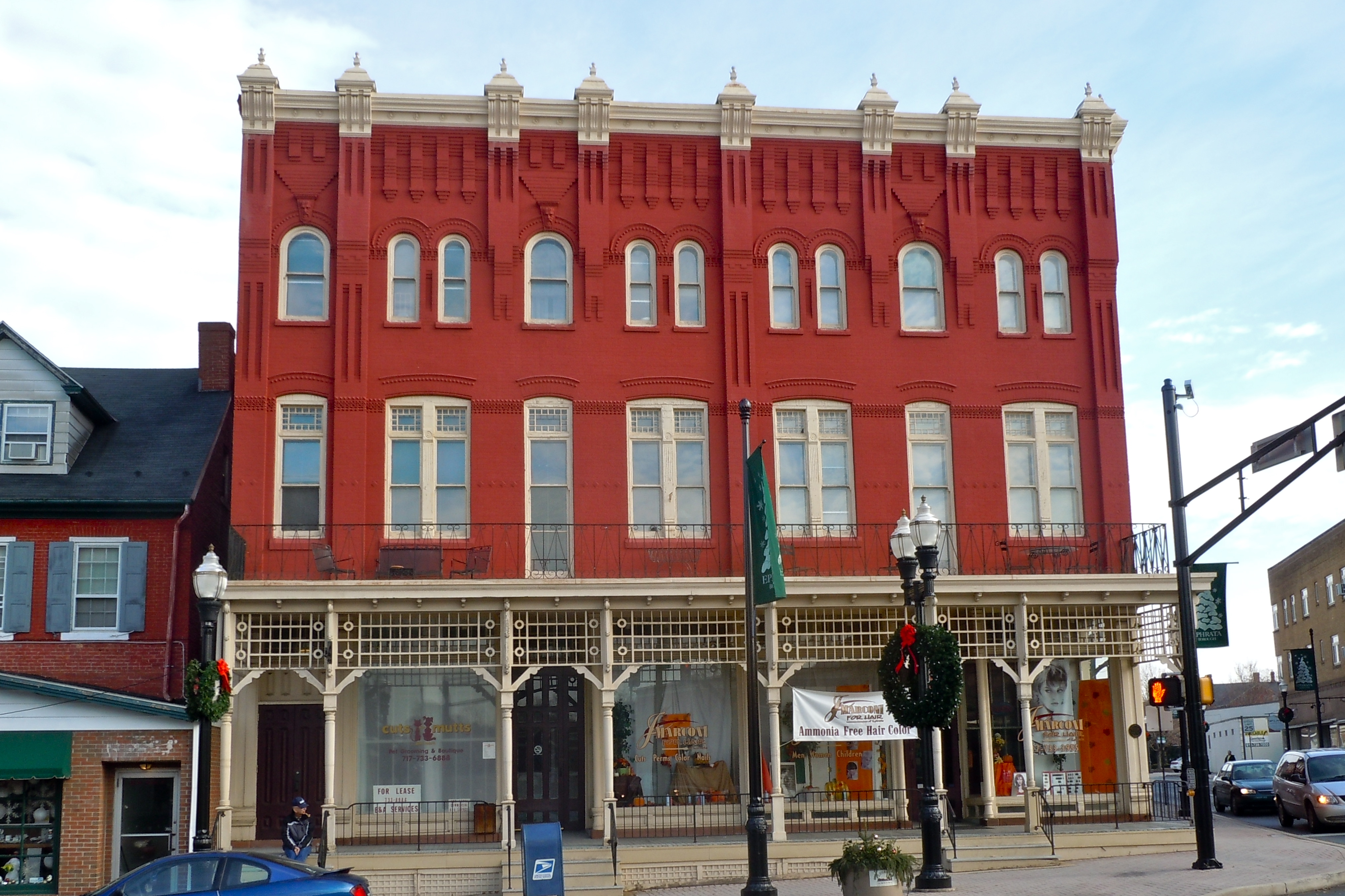 Mentzer Building on the NRHP since March 7, 1985. At 3 West Main Street, Ephrata, Lancaster County, Pennsylvania. The Ephrata Commercial Historic District, also on the NRHP, includes this building, although it gives the address as 1 East Main.